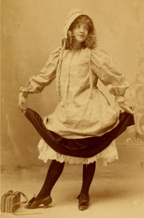 Mamie Gilroy, from a 1908 publication. A young white woman with curly hair under a bonnet, posing in a short light-colored dress with dark tights.